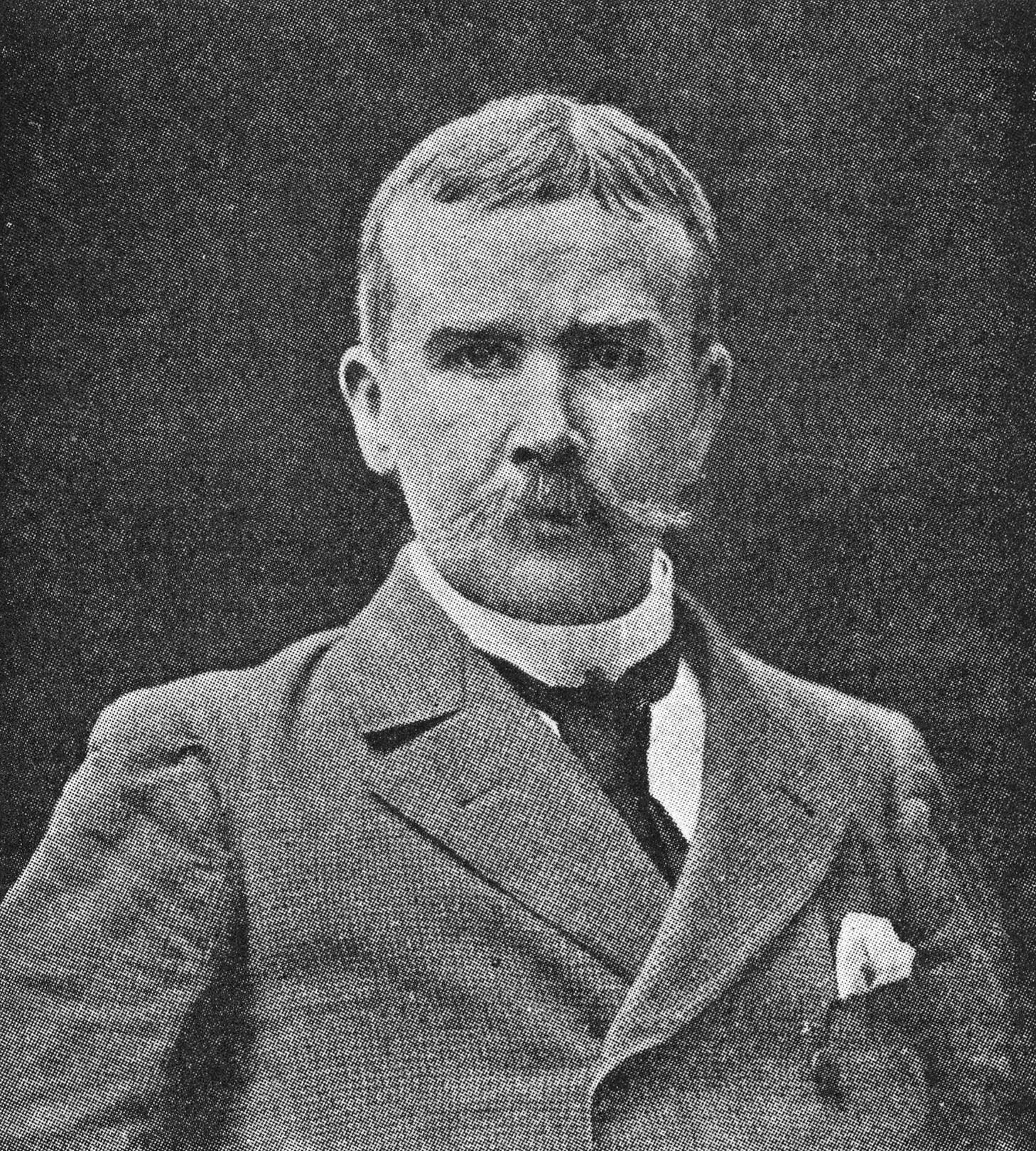 Emil Sjögren - the master of romances in Sweden's history of music.